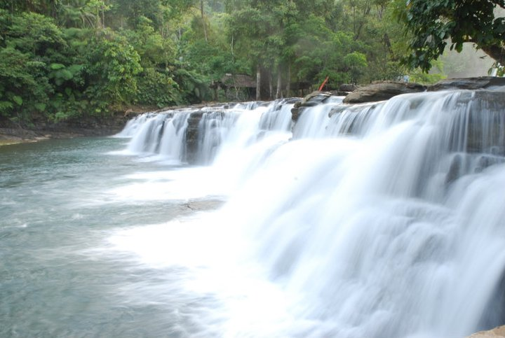 Tinuy-an Falls water stair